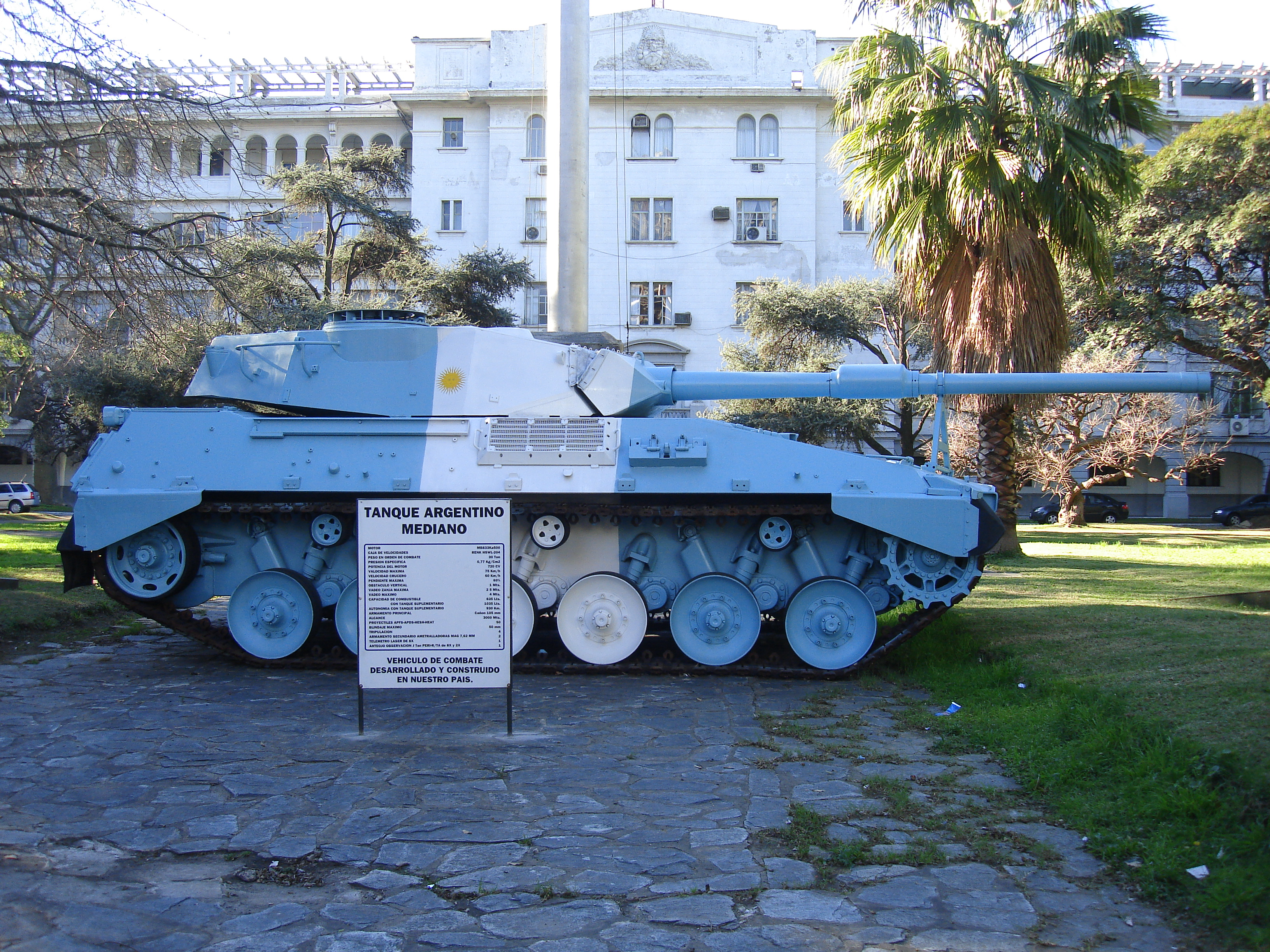 TAM Argentinian tank.